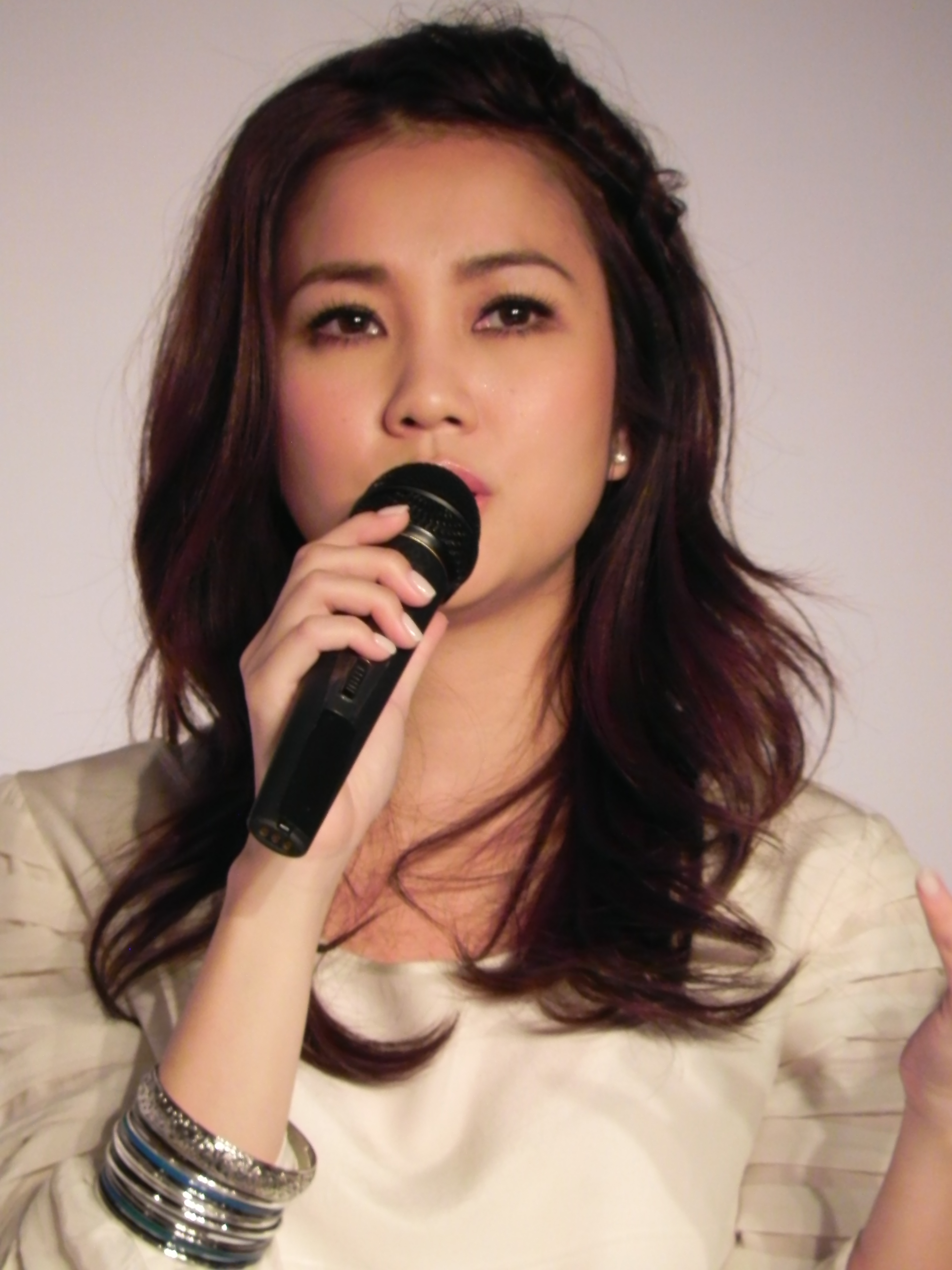 Kay Tse